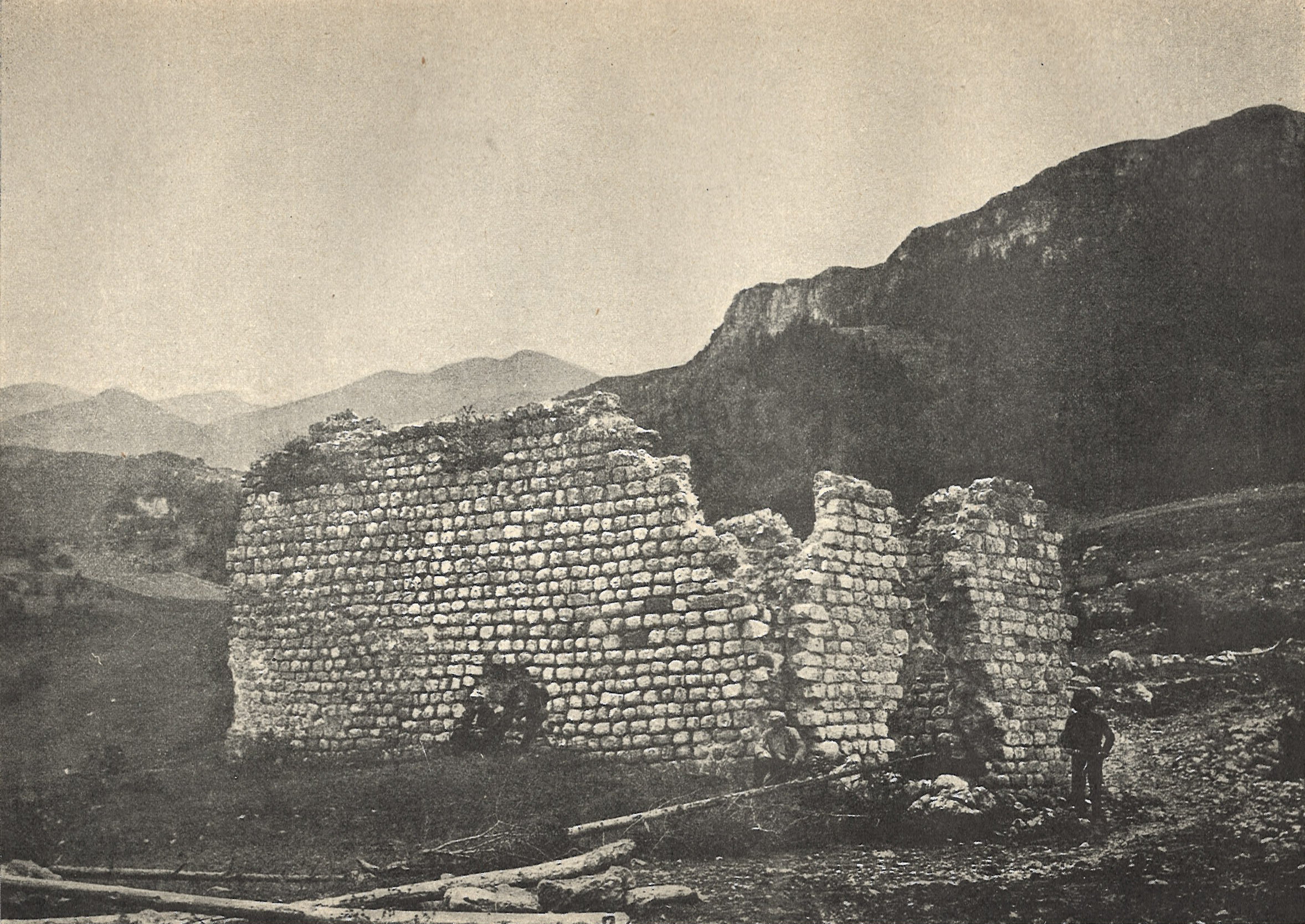 Samtskari church in ruins. NW view. From Nicholas Marr's dairy of his travels to Shavsheti and Klarjeti (1911).